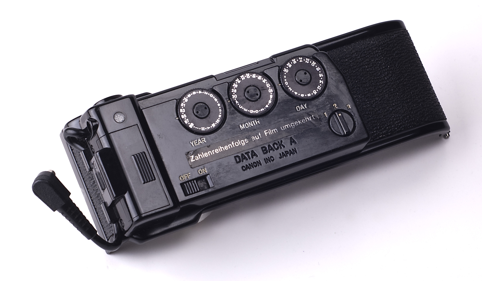 Canon Databack A outer side